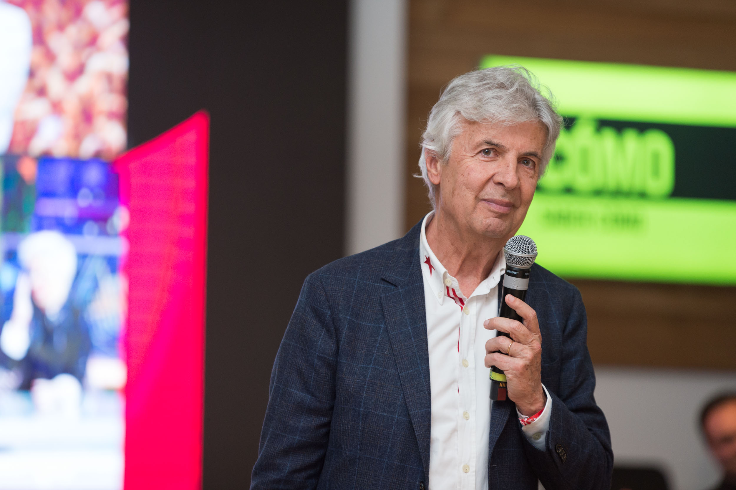 Emilio de Villota